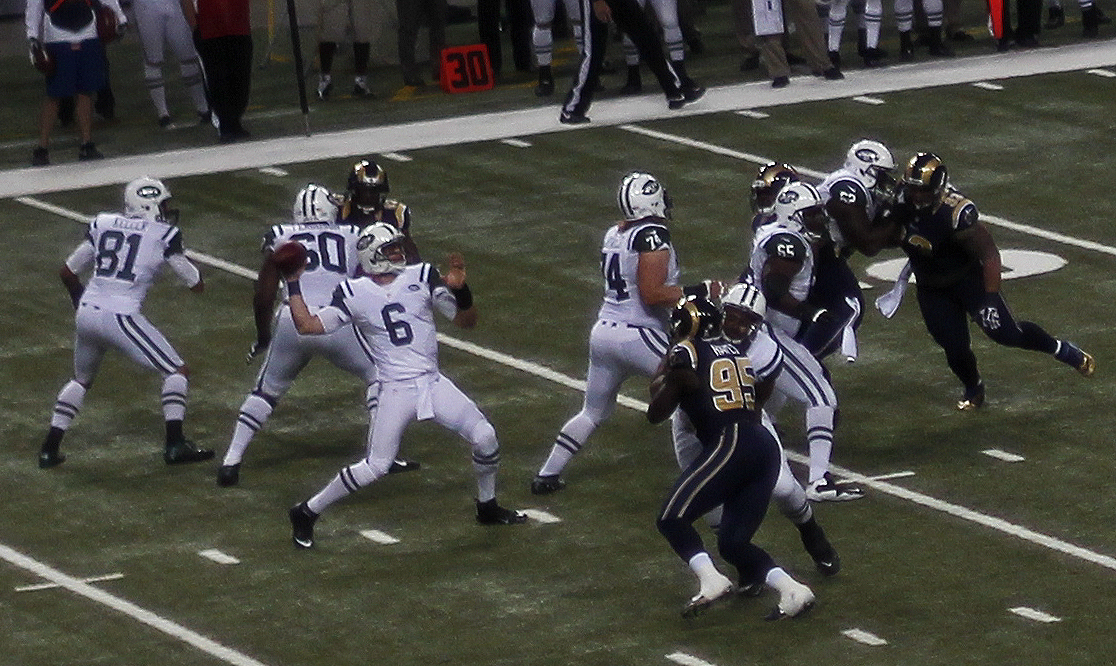 Sanchez tosses a pass.